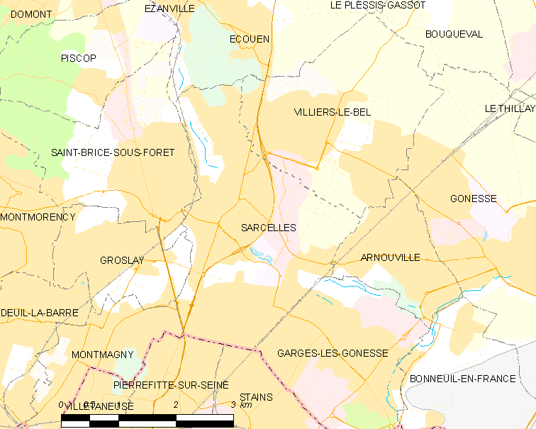 Map of French municipality Sarcelles